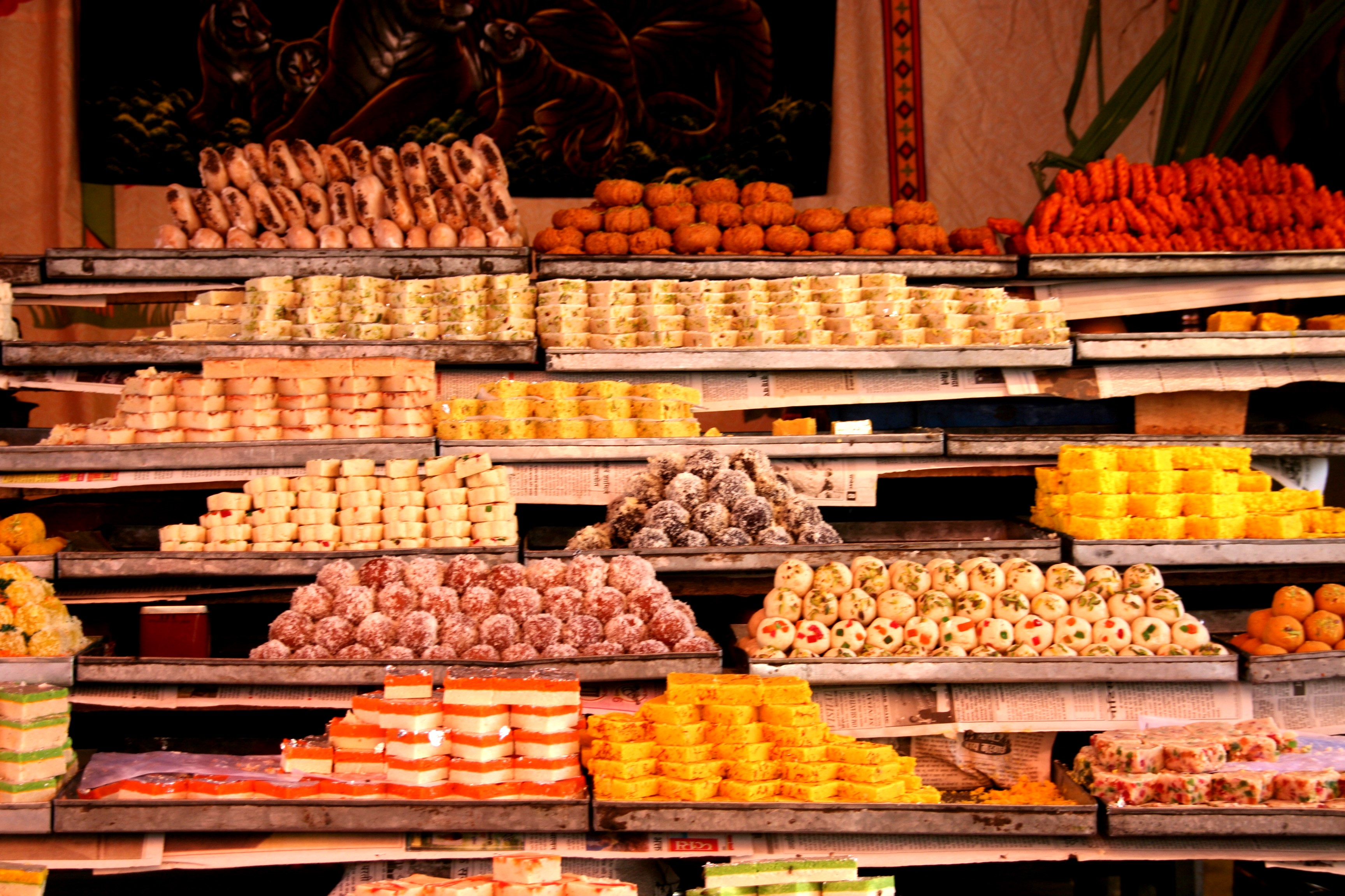 Sweets, desserts shops in India